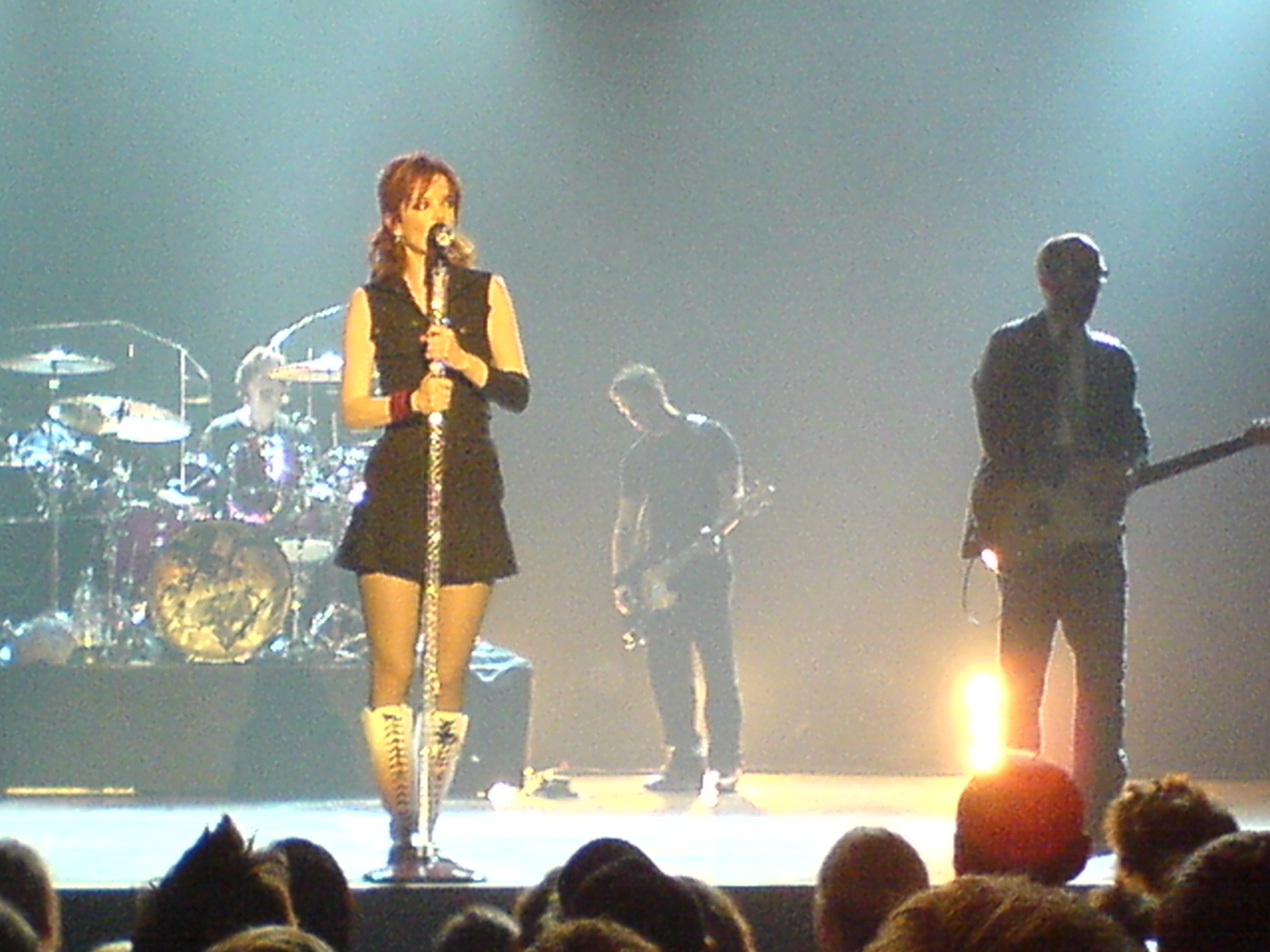 Garbage in 2005.